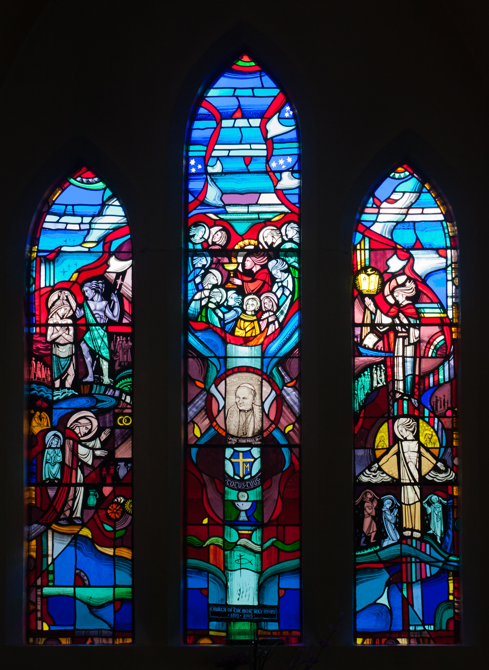 Stained glass window in the south wall of the south transept created by George Walsh in 2005, dedicated to the Mysteries of Light and to Pope John Paul II who introduced them with his apostolic letter Rosarium Virginis Mariae, see also here. These mysteries include The Baptism in the Jordan (left light upper section), The wedding feast of Cana (left light lower section), The proclamation of the kingdom of God (right light upper section), The Transfiguration (right light lower section), and The institution of the Eucharist (centre light upper section). George Walsh (1939–) Alternative names George William WalshDescriptionIrish stained-glass artistDate of birth 1939 Location of birth Dublin Work location Dublin Authority control : Q45315802 creator QS:P170,Q45315802